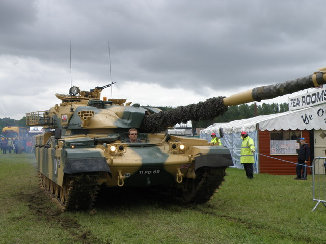 Chieftain Tank at Belvoir